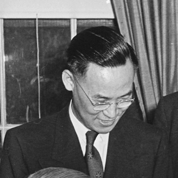 장면 (Dr. John Myun Chang.) Cropped from a photo with a caption: Photograph of President Truman in the Oval Office, receiving a doll from Dr. Helen Kim, a Korean educator, as Dr. John Myun Chang, Ambassador of the Republic of Korea to the United States, and Dr. Frederick Brown Harris, Chaplain of the Senate, look on., 05/08/1951